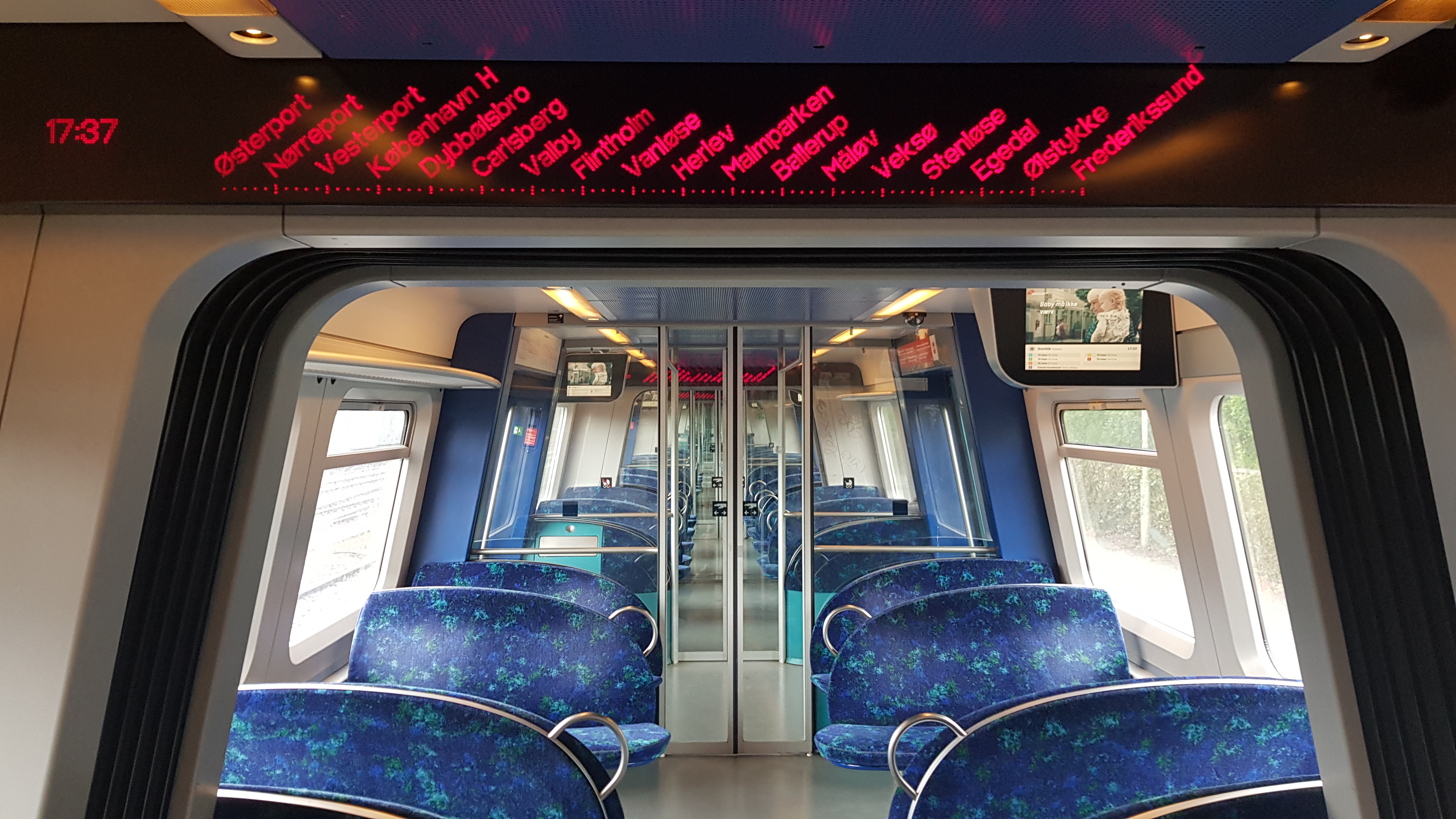 This file is to represent what the interior of a S-train looks like, with the display, info screens dotted around the carrage. Taken from Osterport station, Copenhagen.